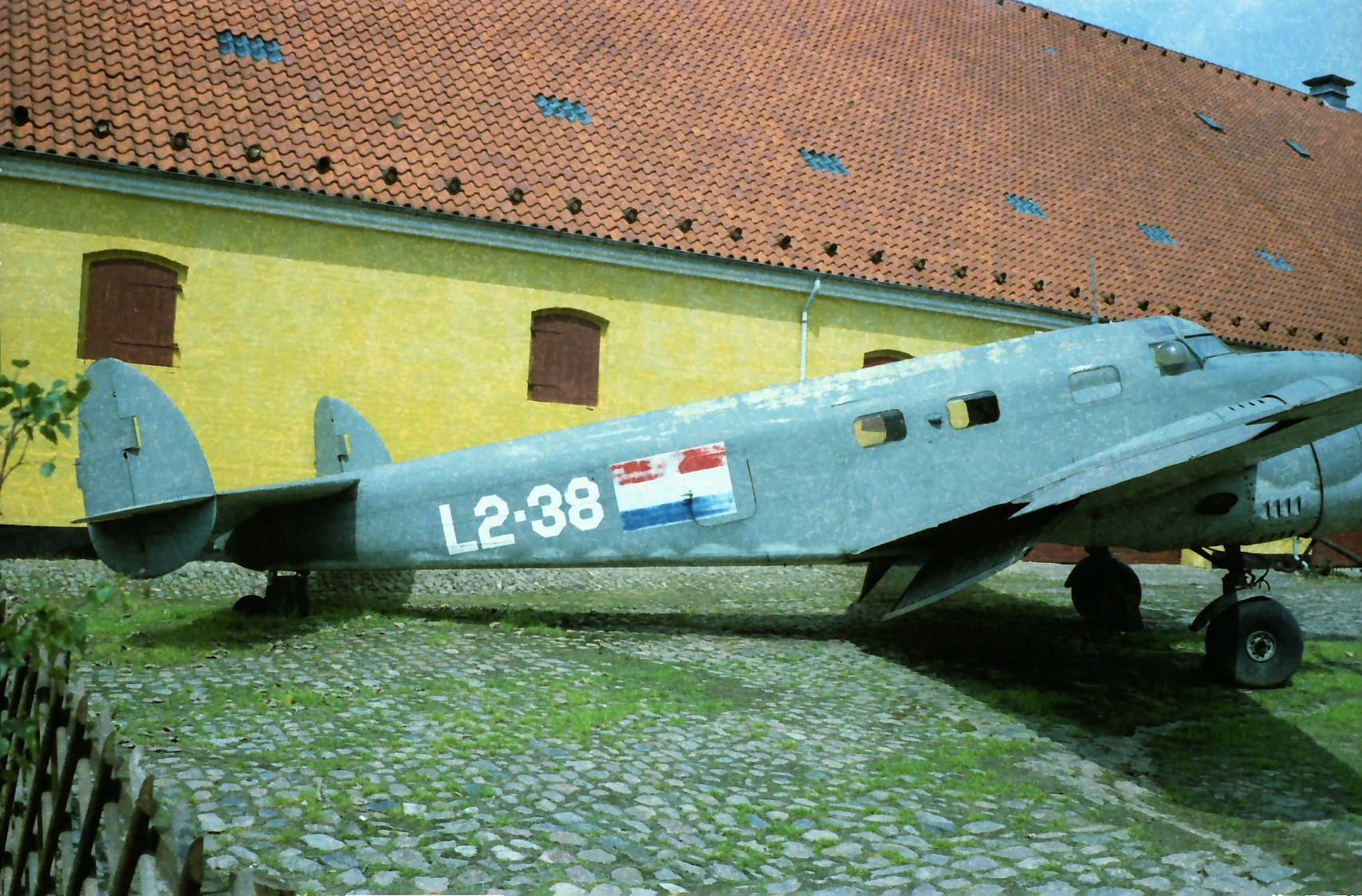 A Lockheed 12A (c/n 1306) at the Egeskov Veteran Car Museum in Kværndrup, Denmark, photographed in 1981. This aircraft is shown here in its former identity of L2-38 of the Royal Netherlands East Indies Army Air Force. It was later transferred to the Militaire Luchtvaart Museum at Soesterberg in the Netherlands, where it was put on display in Royal Netherlands Air Force markings as L2-100. Currently it is under restoration there.